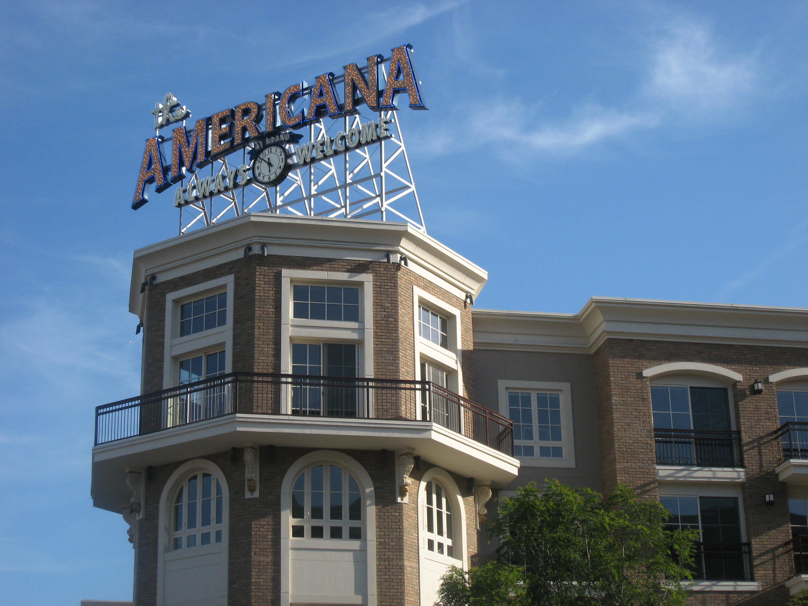 Sign for Americana at Brand shopping mall in Glendale, California